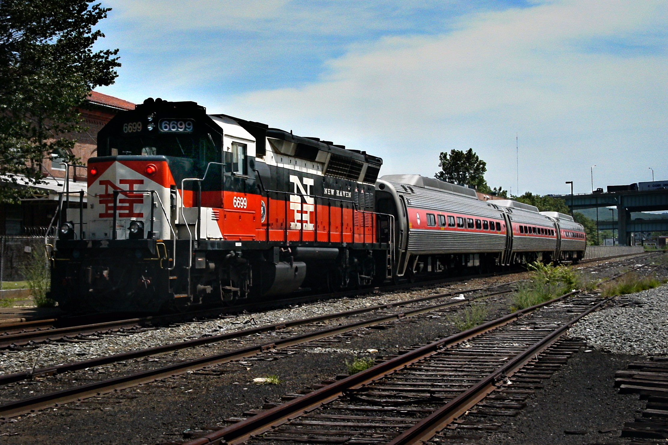 ConnDOT GP40-2H #6699 with Constitution Liners (depowered SPV-2000 railcars) at Waterbury in June 2003